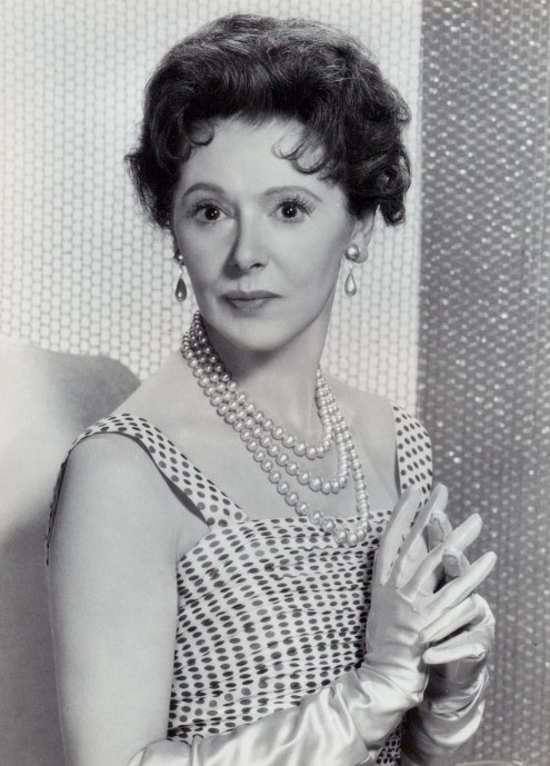 Isabel Jeans in the film Gigi (1958) - publicity still (original image cropped : see source)